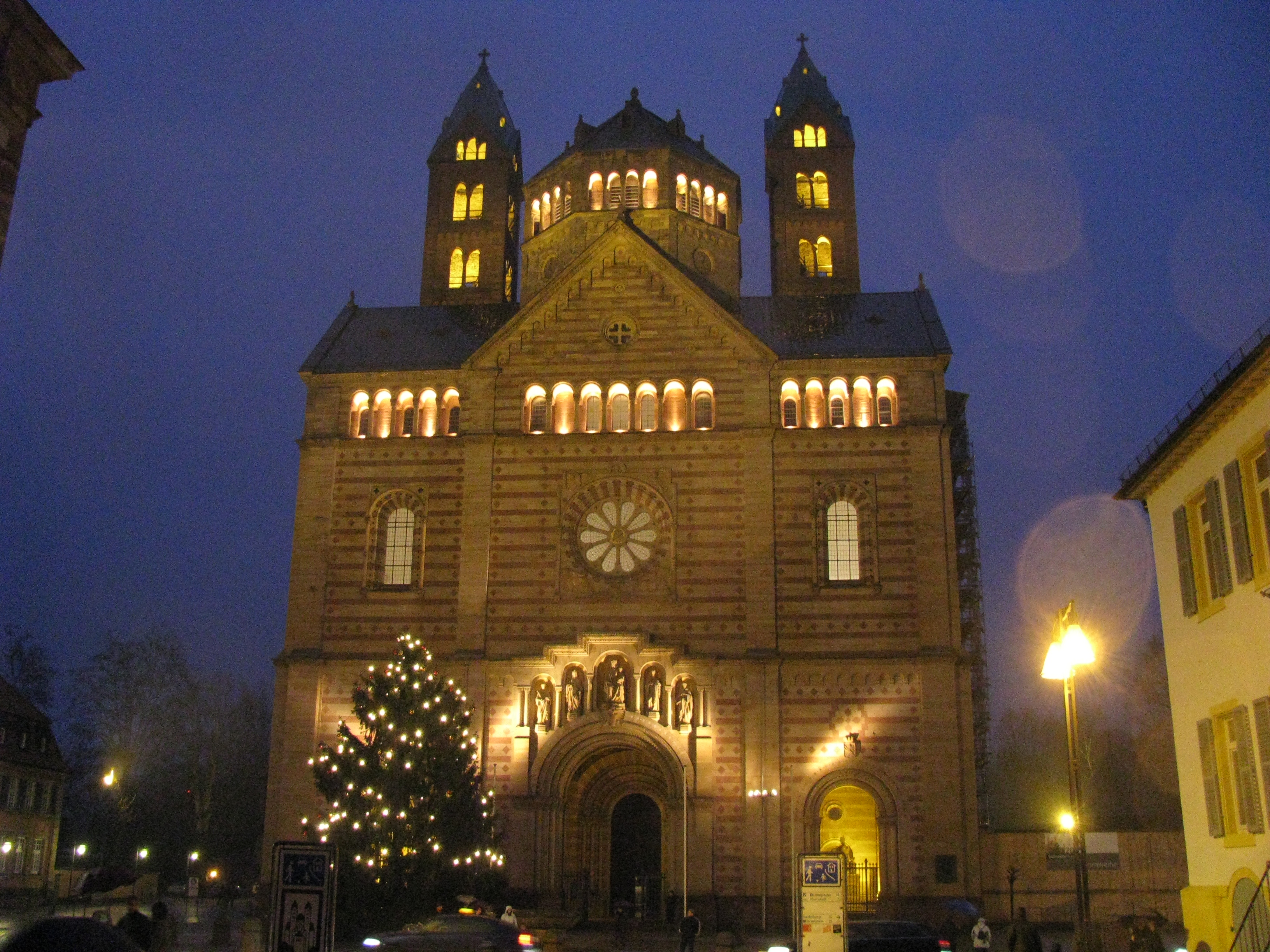 Frontal view of Speyer Cathedral with Christmas illumination